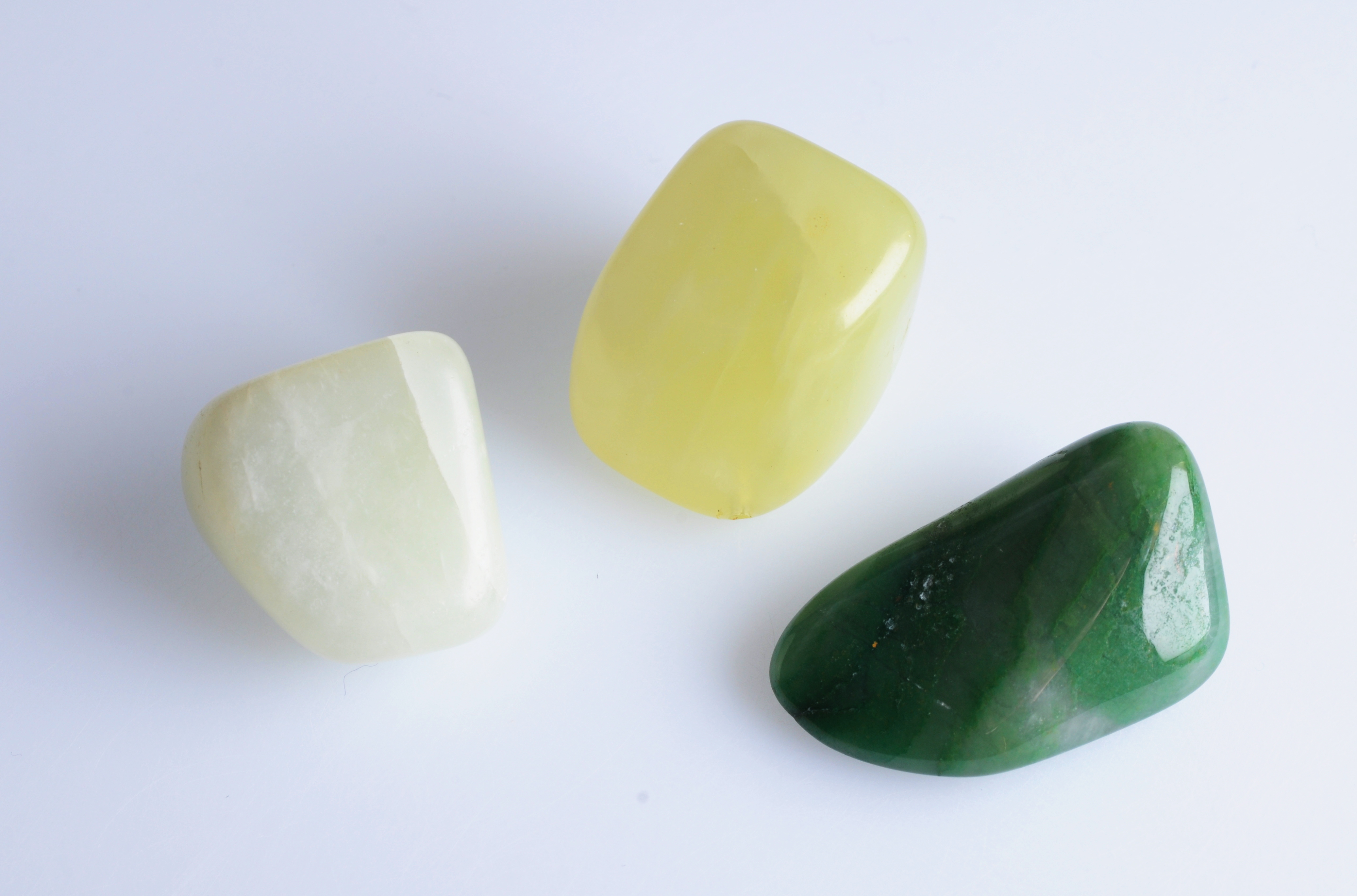 Jade, an ornamental stone. White and green.